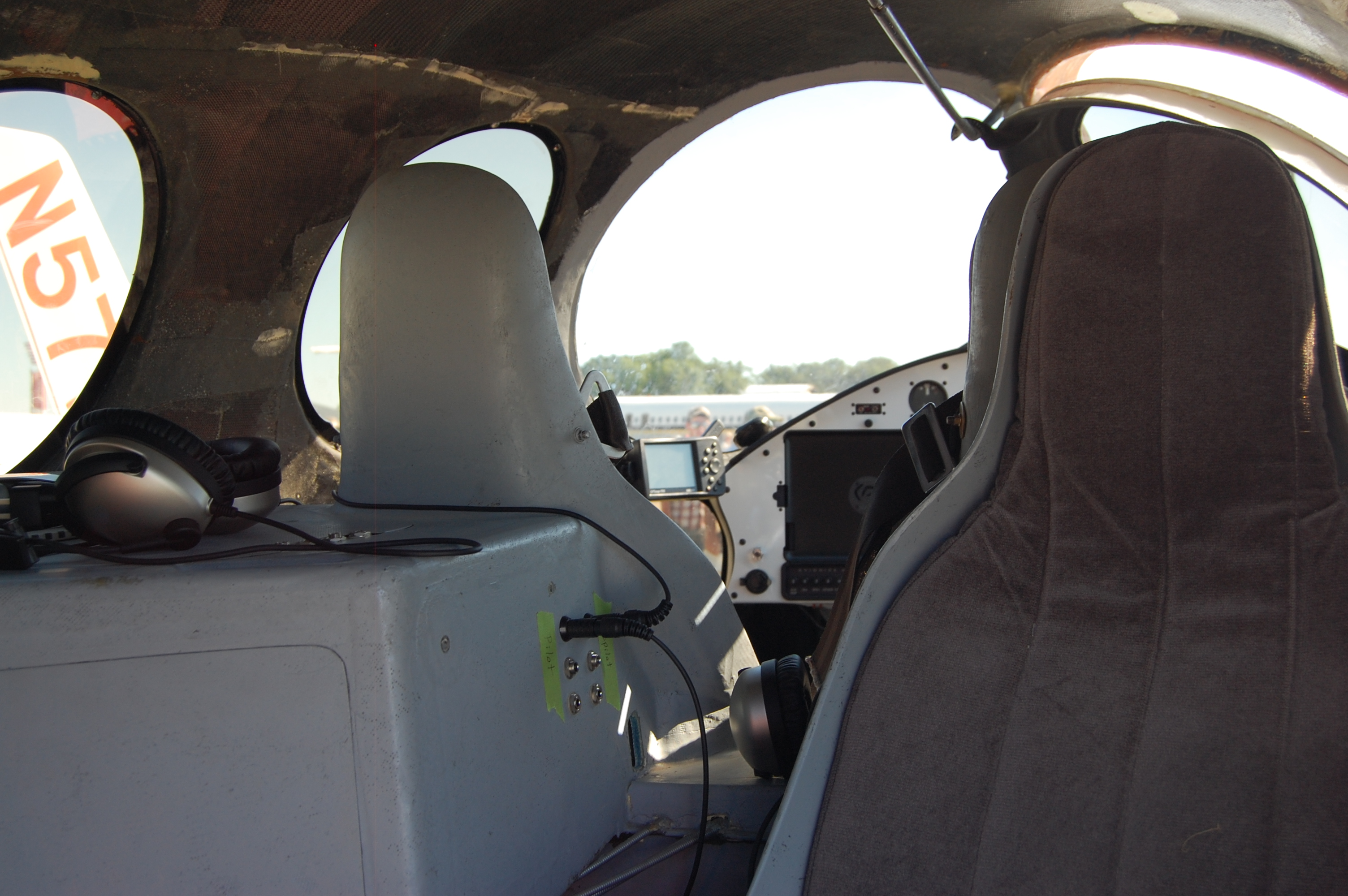 The seemlingly unfinished and stark interior of the Rutan Boomerang. Not to say that it isn't finished, but it gives you the impression that it isn't. Seen at EAA AirVenture 2011.